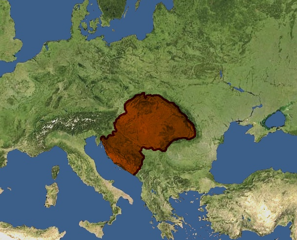 Kingdom of Hungary in 1190.